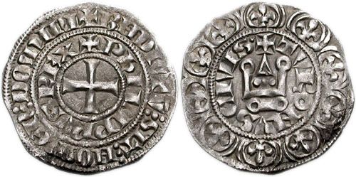 FRANCE, Royal. Philippe IV, the Fair (le Bel). 1285-1314. AR Maille tierce à l'O rond (1/3 gros tournois) (20mm, 1.31 g, 1h). Struck 1306-1314. +BHDICTV: SIT: HOmEn: DOmInI / + PhILIPPVS REX, short cross pattée; N's reverted. 3-pellet stops +TVRONVS CIVIS, châtel tournois; border of ten lis. Duplessy 219D; Ciani 214; Roberts 2498 var. (obverse legend).